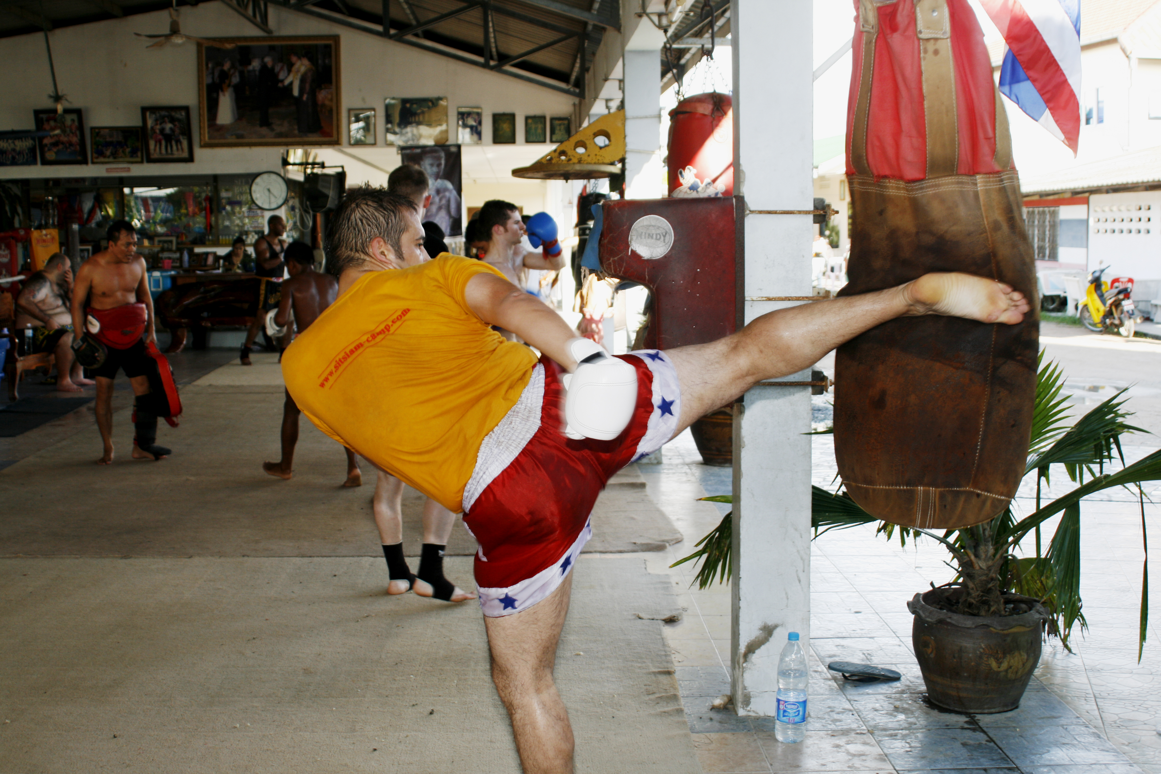 Muay Thai Kick Thailand.